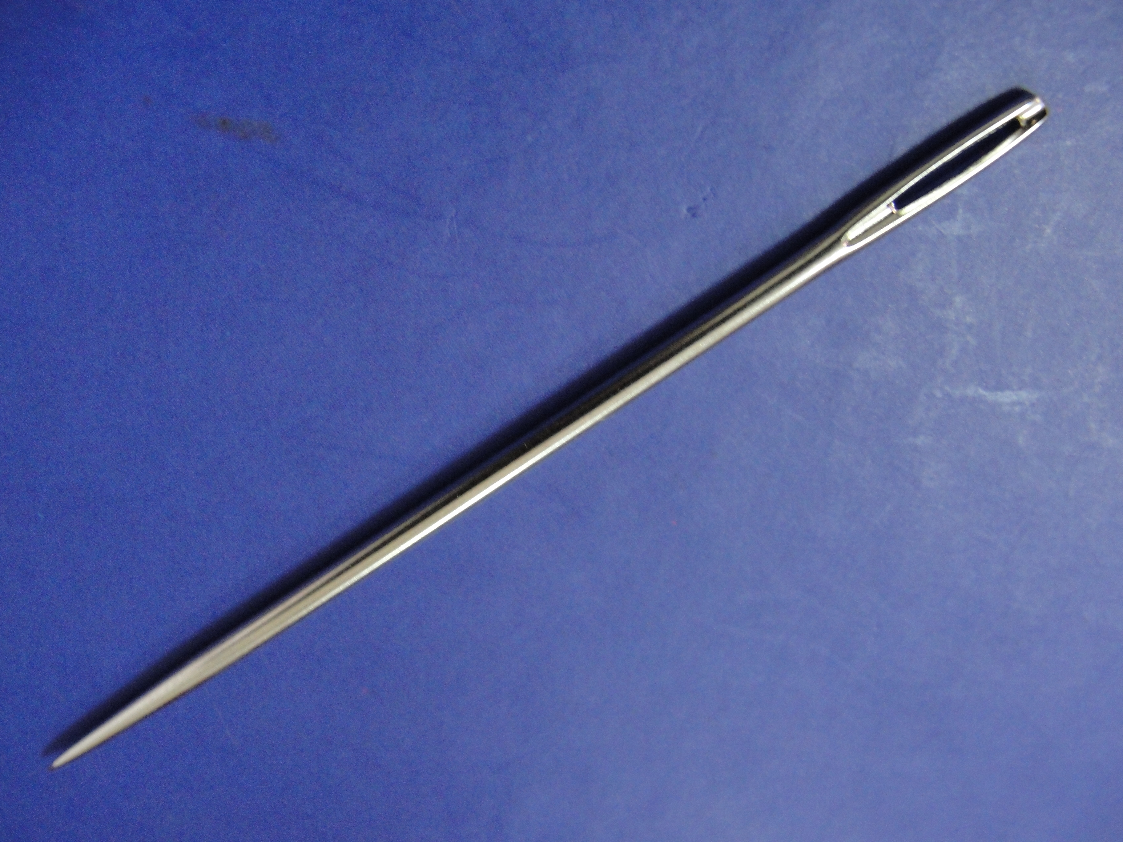 A depiction of needle Unknown